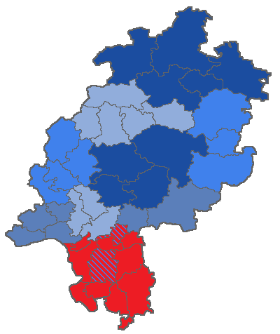 Map of the district court Darmstadt in Hesse, Germany